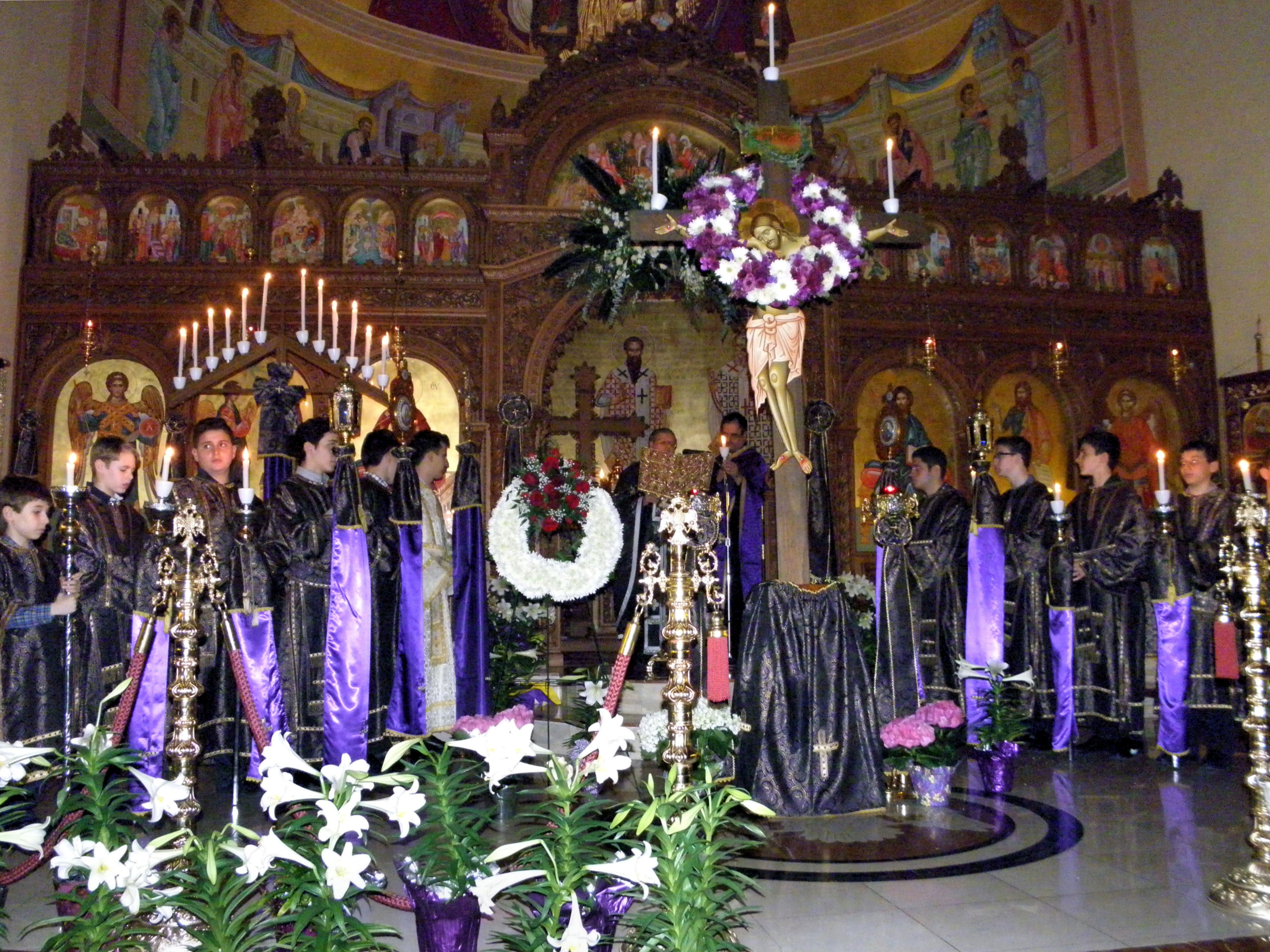 Reading of the 12th Passion Gospel during the Service of the Passion of our Lord (Greek: Ακολουθία των Παθών ) on Great and Holy Thursday. Annunciation of the Virgin Mary Greek Orthodox Cathedral, Toronto, 2014.